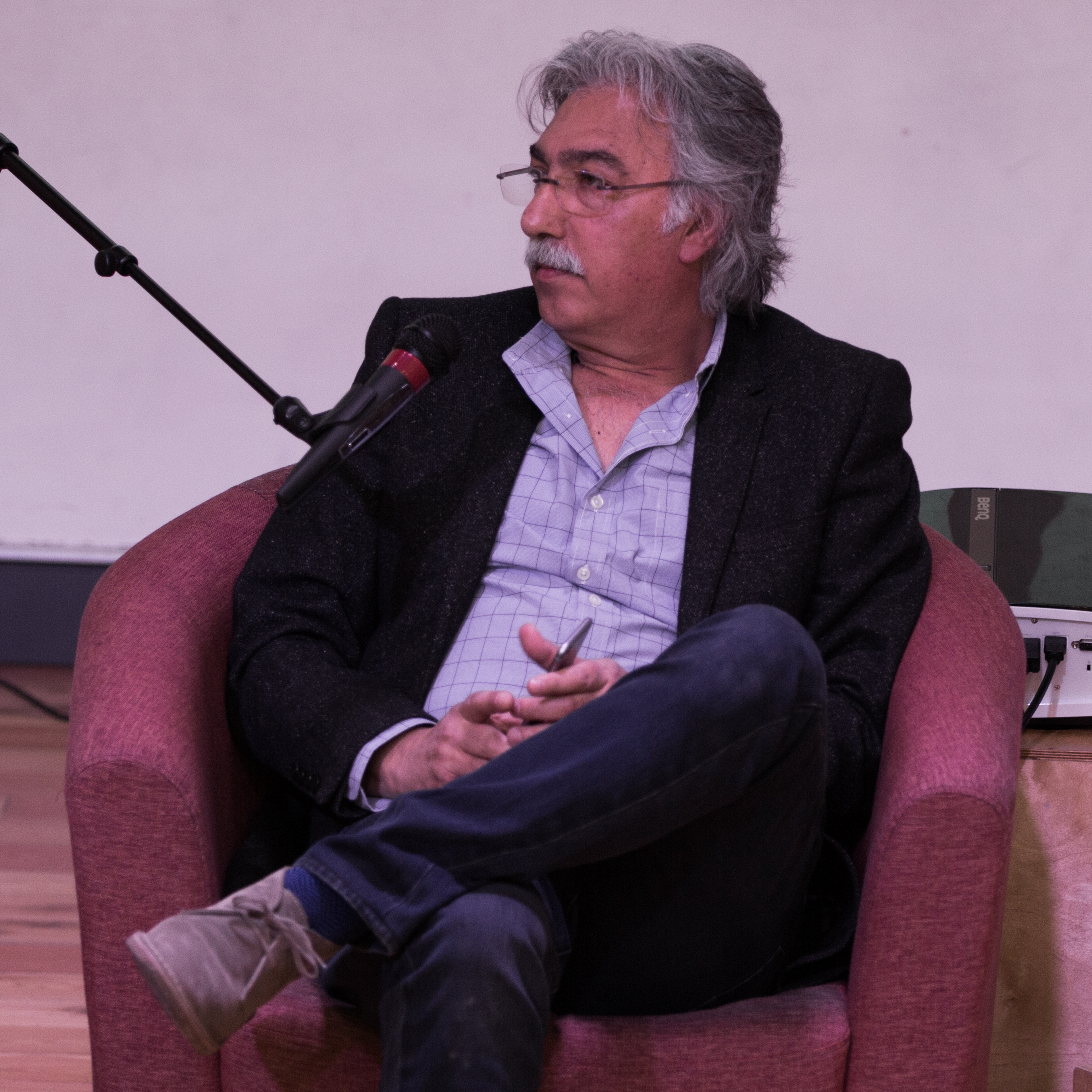 Sam Simonian of The Simonian Foundation, which funds the Tumo Center for Creative Technologies in Yerevan, Armenia. The photograph was taken during the AGBUtalks panel discussion titled "Human Capital in Armenia and the Diaspora" at the Ayb High School in Yerevan..